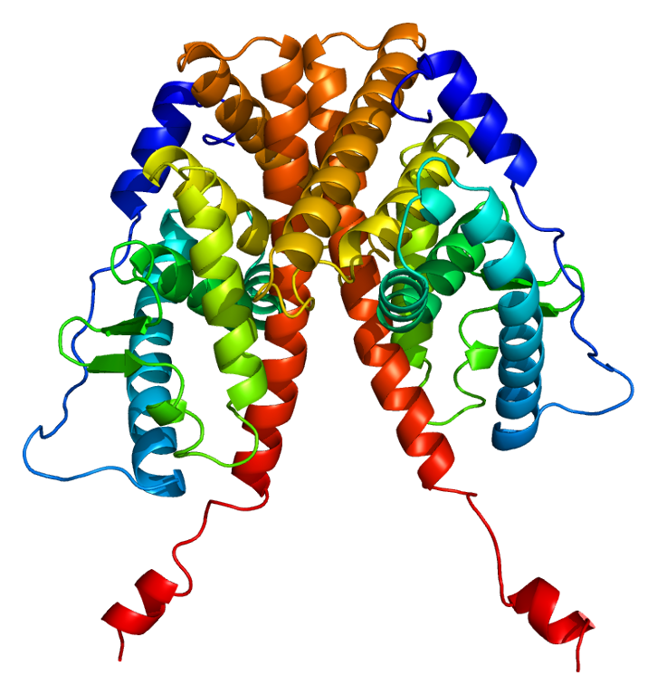 Structure of the ESR1 protein. Based on PyMOL rendering of PDB 1a52.